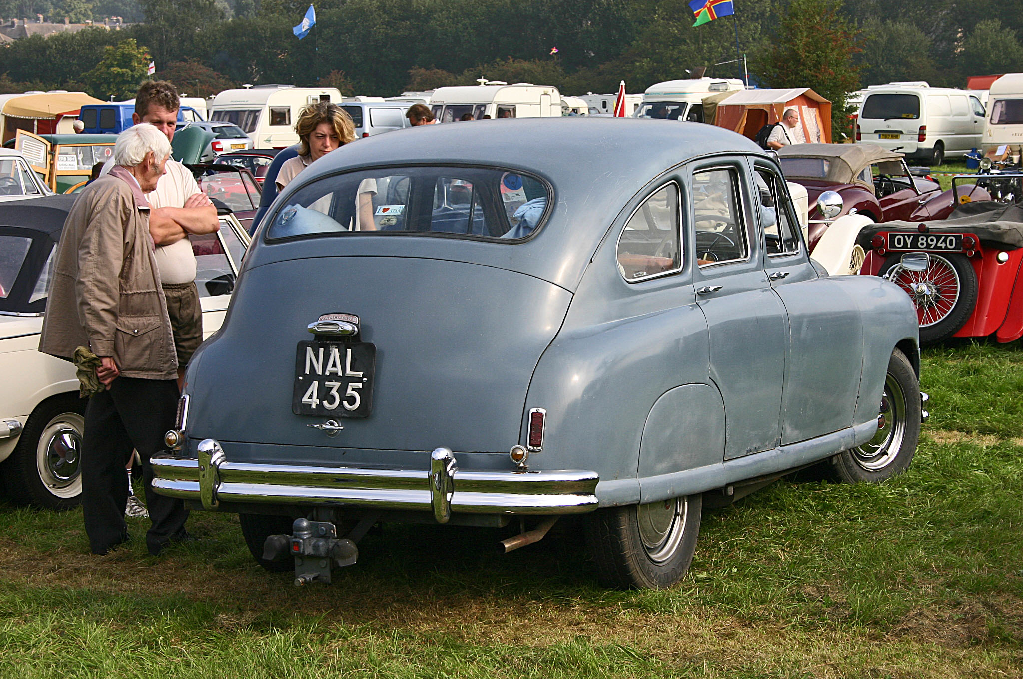 Standard Vanguard Phase 1A with larger rear window denoting that it is the revised 1A. The 'beetle-back' design was changed to a conventional '3box' design on the Phase II